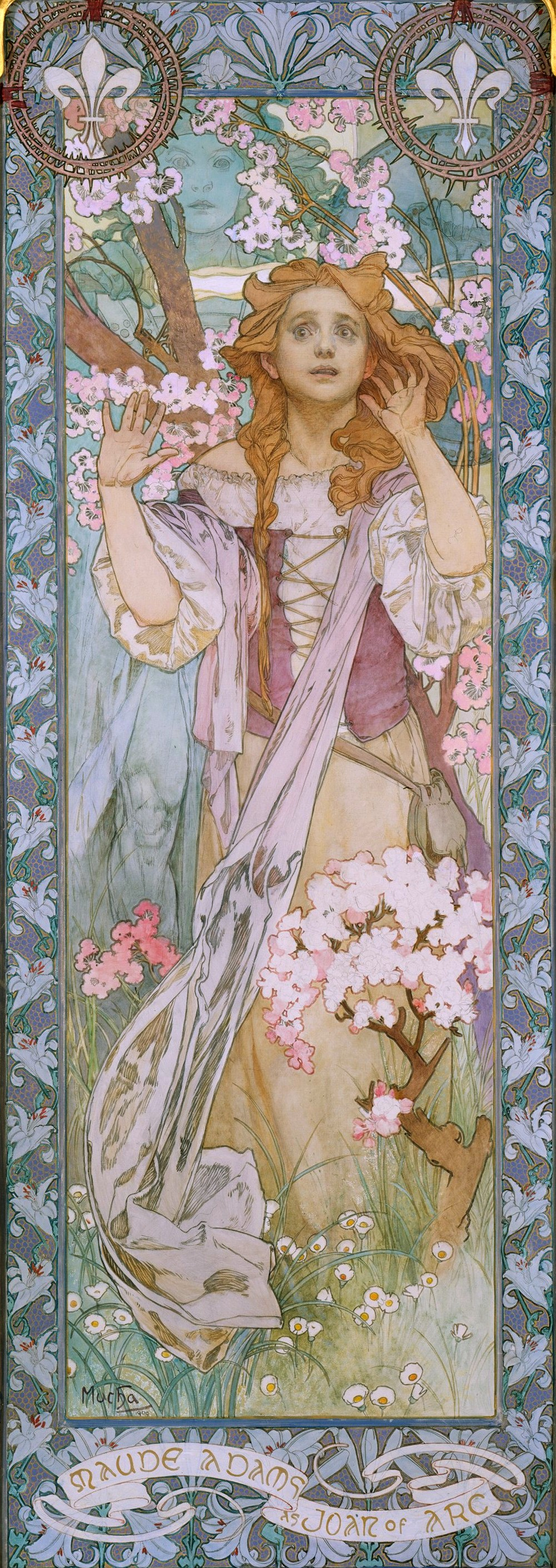 This poster was created by Mucha in Chicago, and, as a poster, it was first published there, pre-1923. It was a Gift of A. J. Kobler to the Metropolitan Museum of Art in 1920.